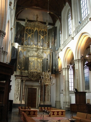 New Church Amsterdam inside